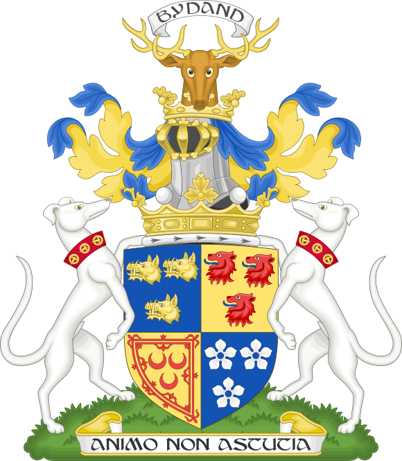 coat of arms of the marquess of Huntly - Premier marquess of Scotland Arms. Quarterly: 1st, Azure three Boars' Heads couped Or (Gordon); 2nd, Or three Lions' Heads erased Gules langued Azure (Badenoch); 3rd, Or three Crescents within a Double Tressure flory counterflory Gules (Seton); 4th, Azure three Cinquefoils Argent (Fraser). Crest. In a Ducal Coronet Or a Stag's Head and Neck affrontée proper attired with ten Tynes Gold. Supporters. On either side a Greyhound Argent each gorged with a Collar Gules charged with three Buckles Or. Motto. Animo Non Astutia (By courage not by stratagem). Cracroft's Peerage